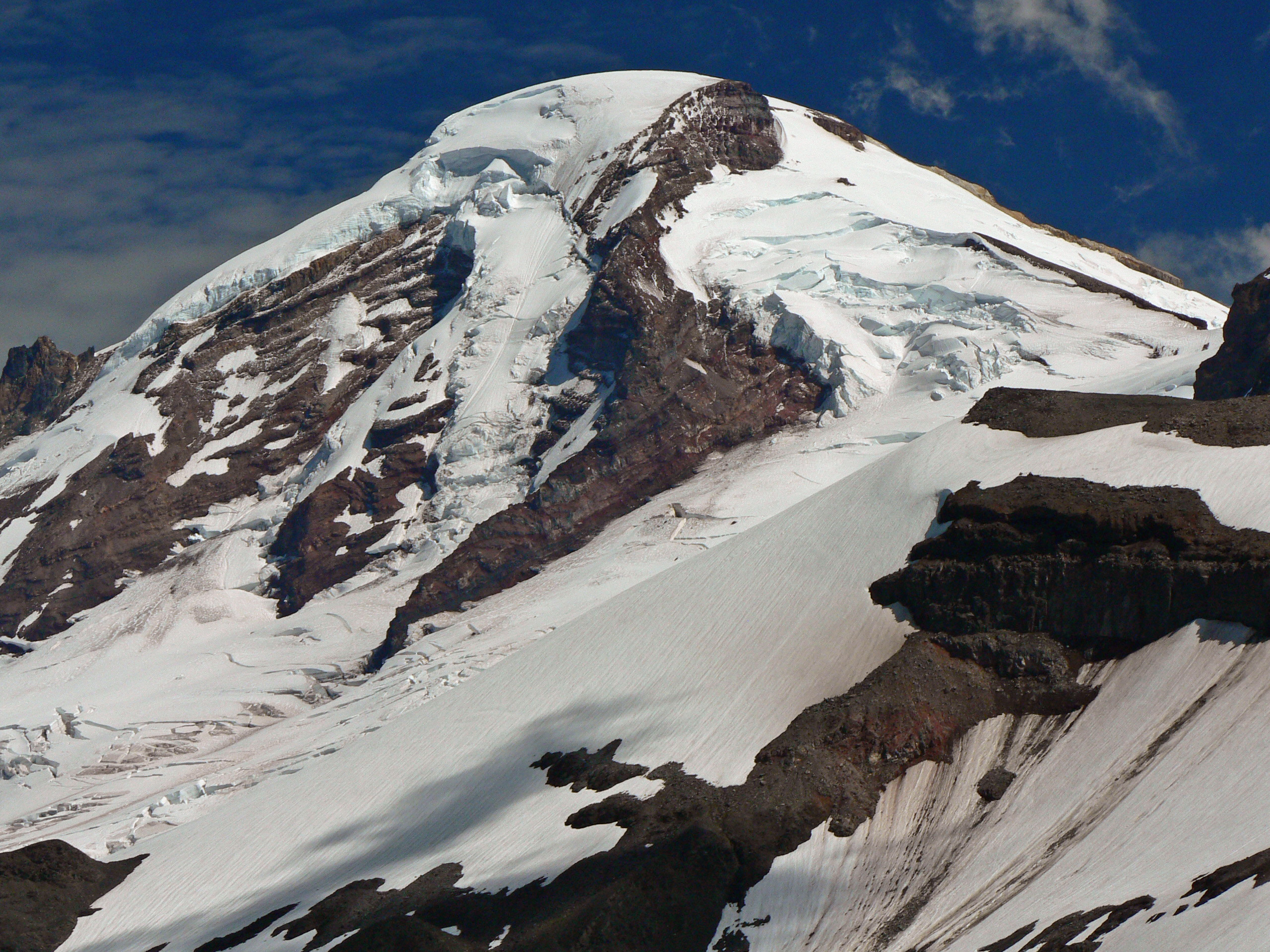 Mount Baker; Cockscomb (left); North Ridge; Coleman Glacier Headwall; Roman Nose (center); Coleman Glacier (both sides and below Roman Nose)